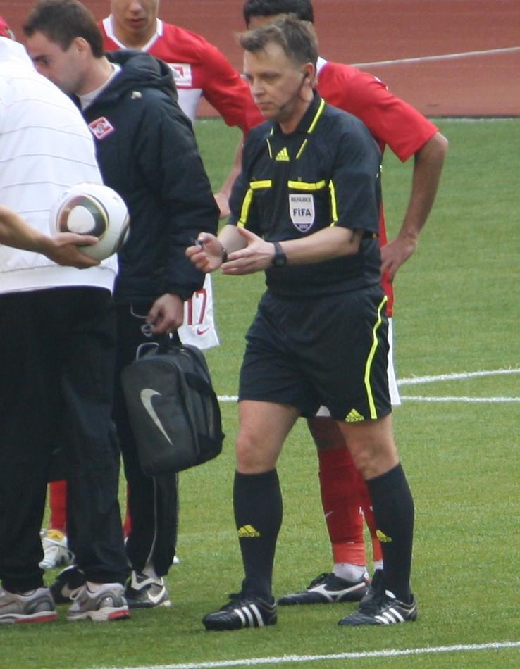 Vladimir Pettay